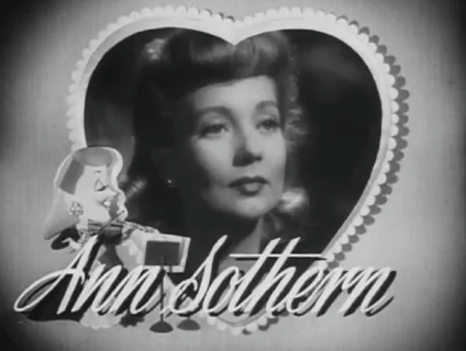 Ann Sothern in Three Hearts for Julia, by Richard Thorpe (1943)